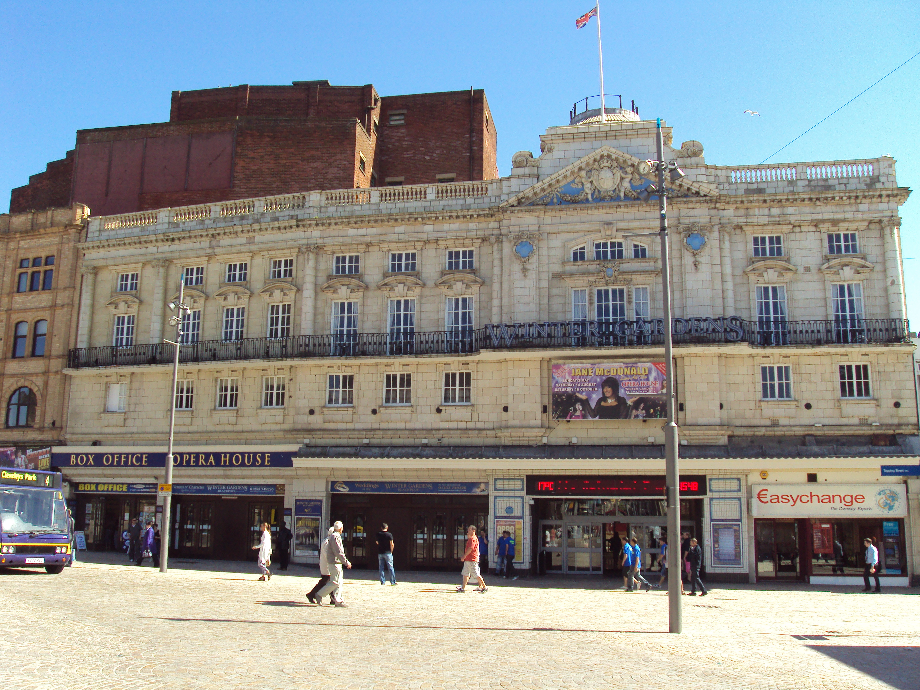 The Opera House, Winter Gardens, Church Street, Blackpool, Lancashire.